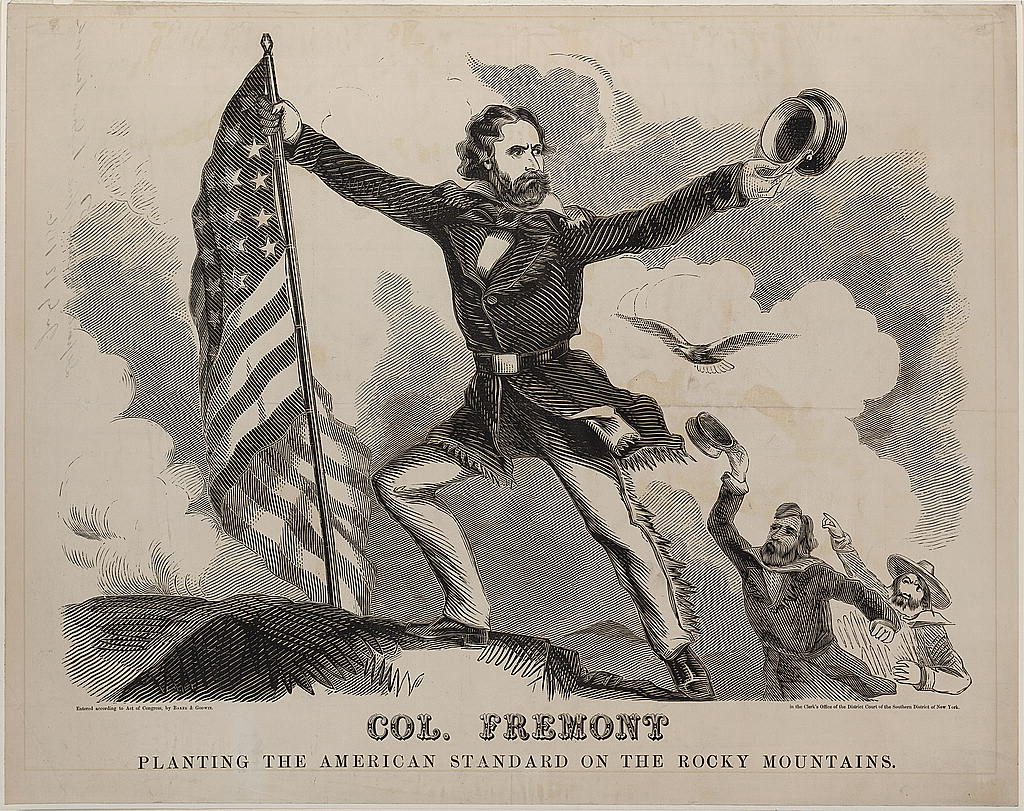 Proof for a large woodcut campaign banner or poster for John C. Fremont, Republican presidential contender in 1856. Fremont is shown in full-length on a mountain peak, planting an American flag. He is clad in fringed trousers and military coat and waves a visored cap in the air. Below, at right, are a bearded trapper or fellow explorer and a Mexican wearing a wide-brimmed hat. An eagle soars in the air beyond them. This scene and that in no. 1856-4 are no doubt intended to evoke heroic memories of Fremont's famous exploring expeditions to the Rocky Mountains in 1842 and 1843.